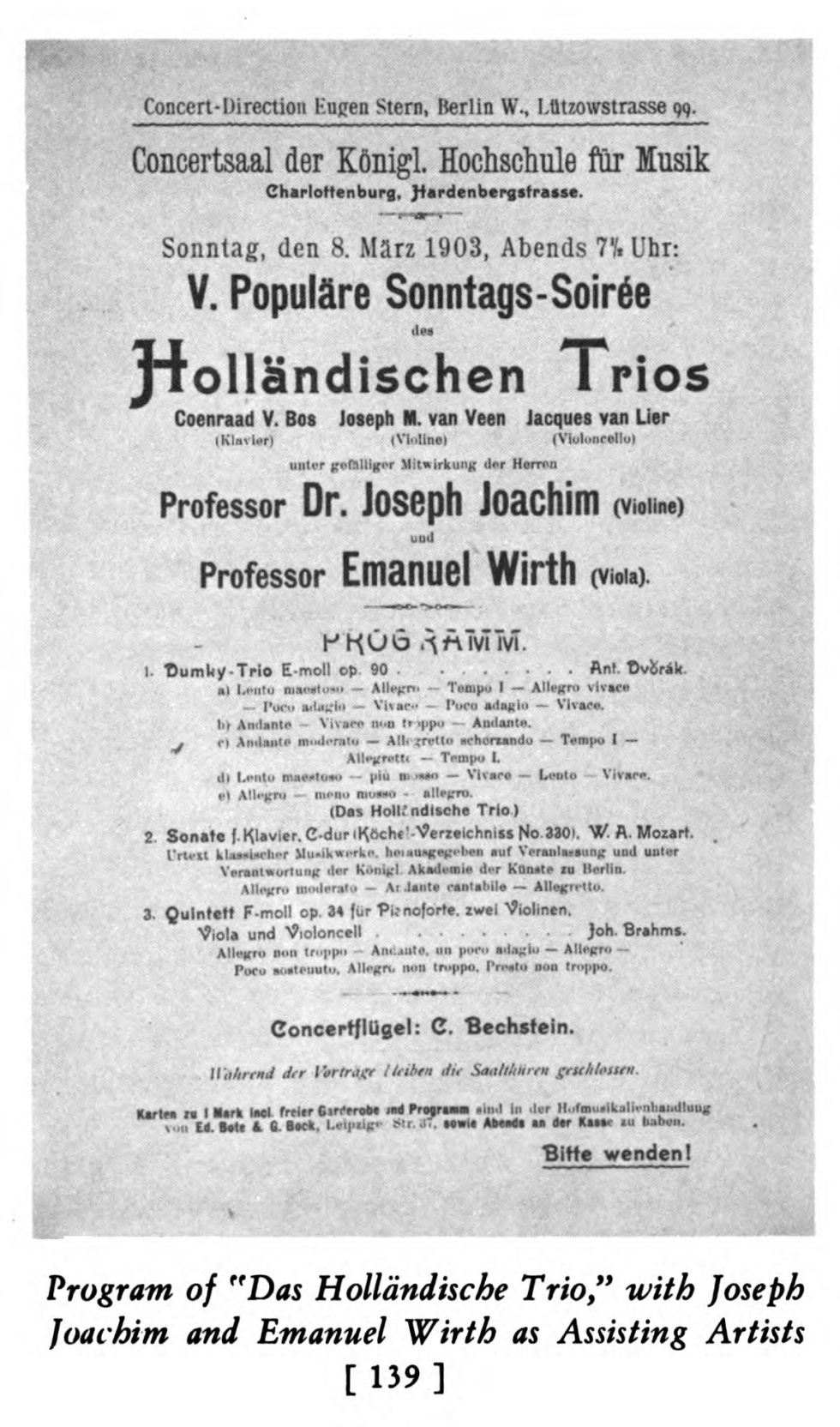 This is a poster for a concert of a pianotrio called the Dutch Trio with invitees Joseph Joachim and Emmanuel Werth